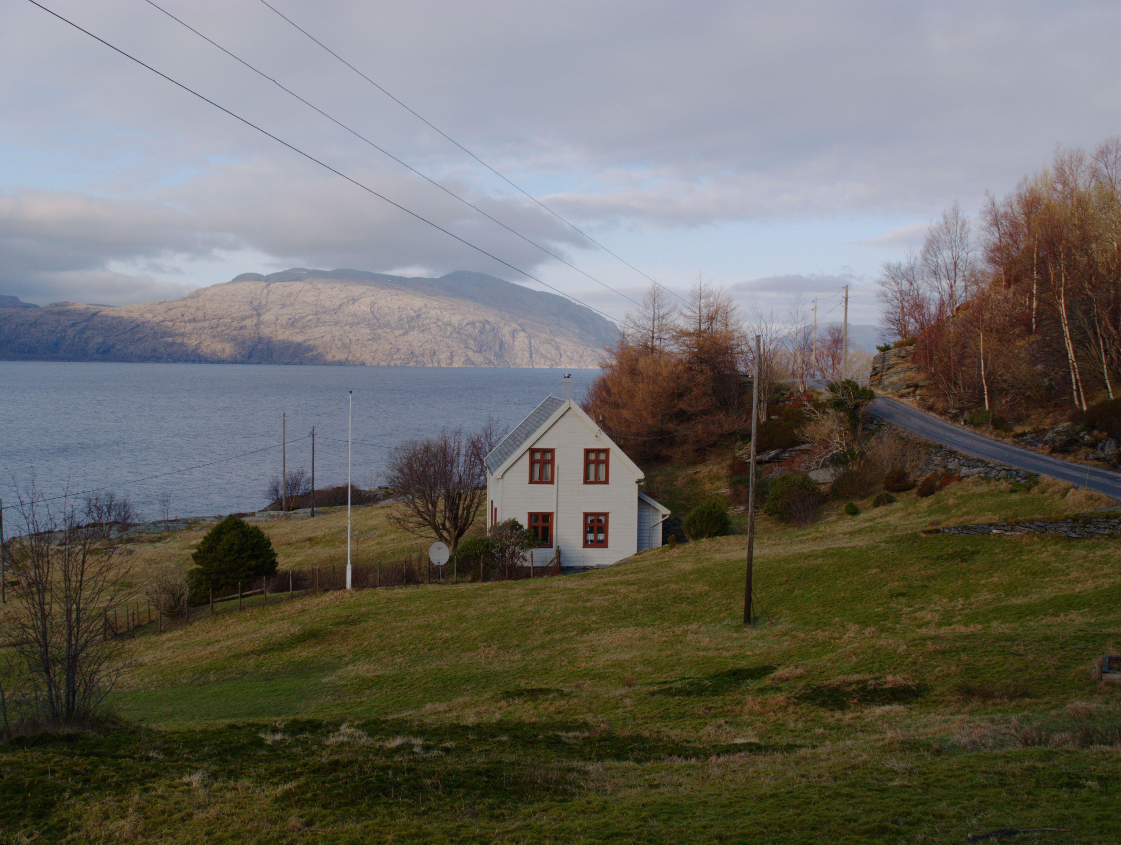 Risenes farm in Gulen municipality, Norway.